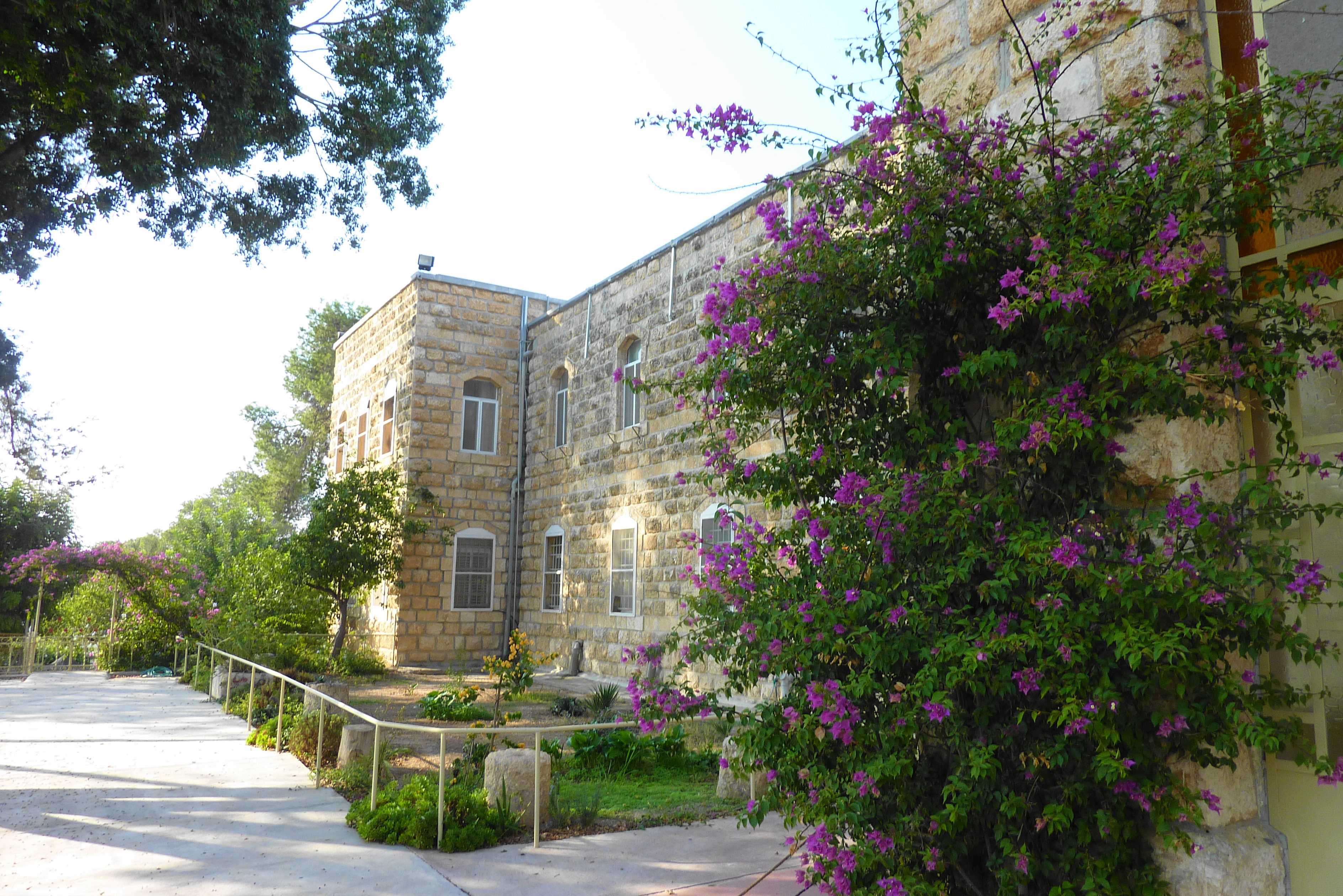 Deir Rafat monastery